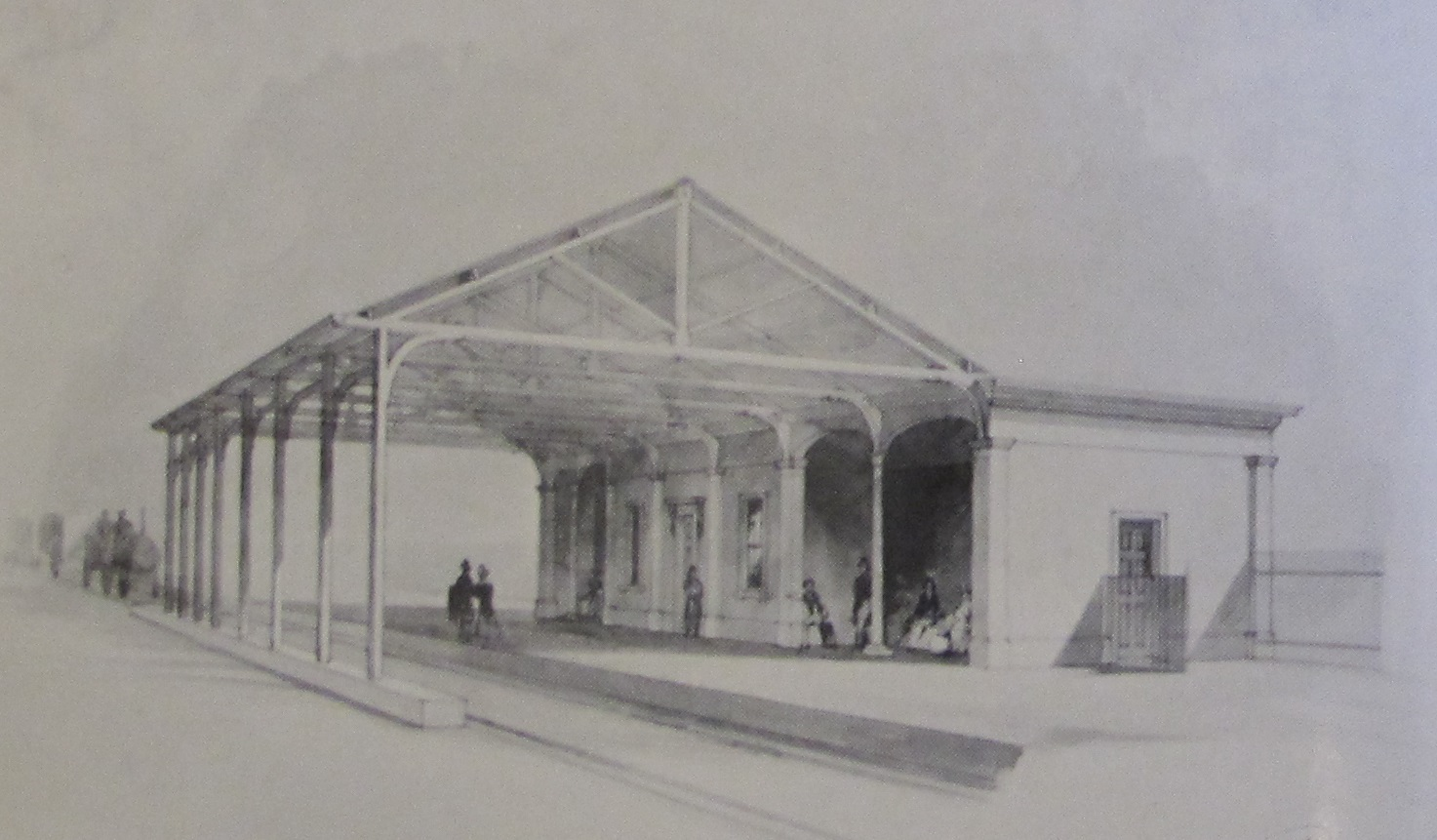 Red Hill and Reigate Road railway station in 1841. Modern photograph of a contemporary image